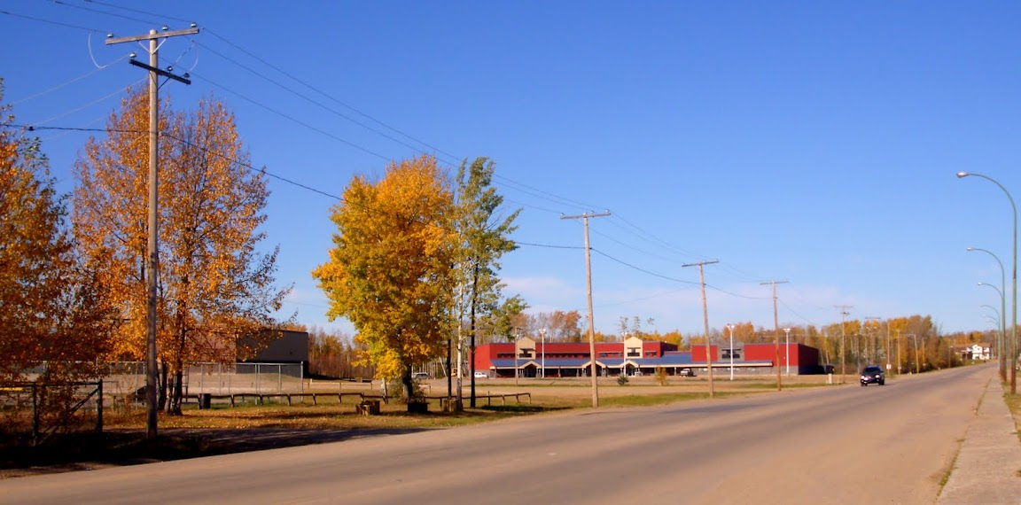 Part of main street in Buffalo Narrows, Saskatchewan